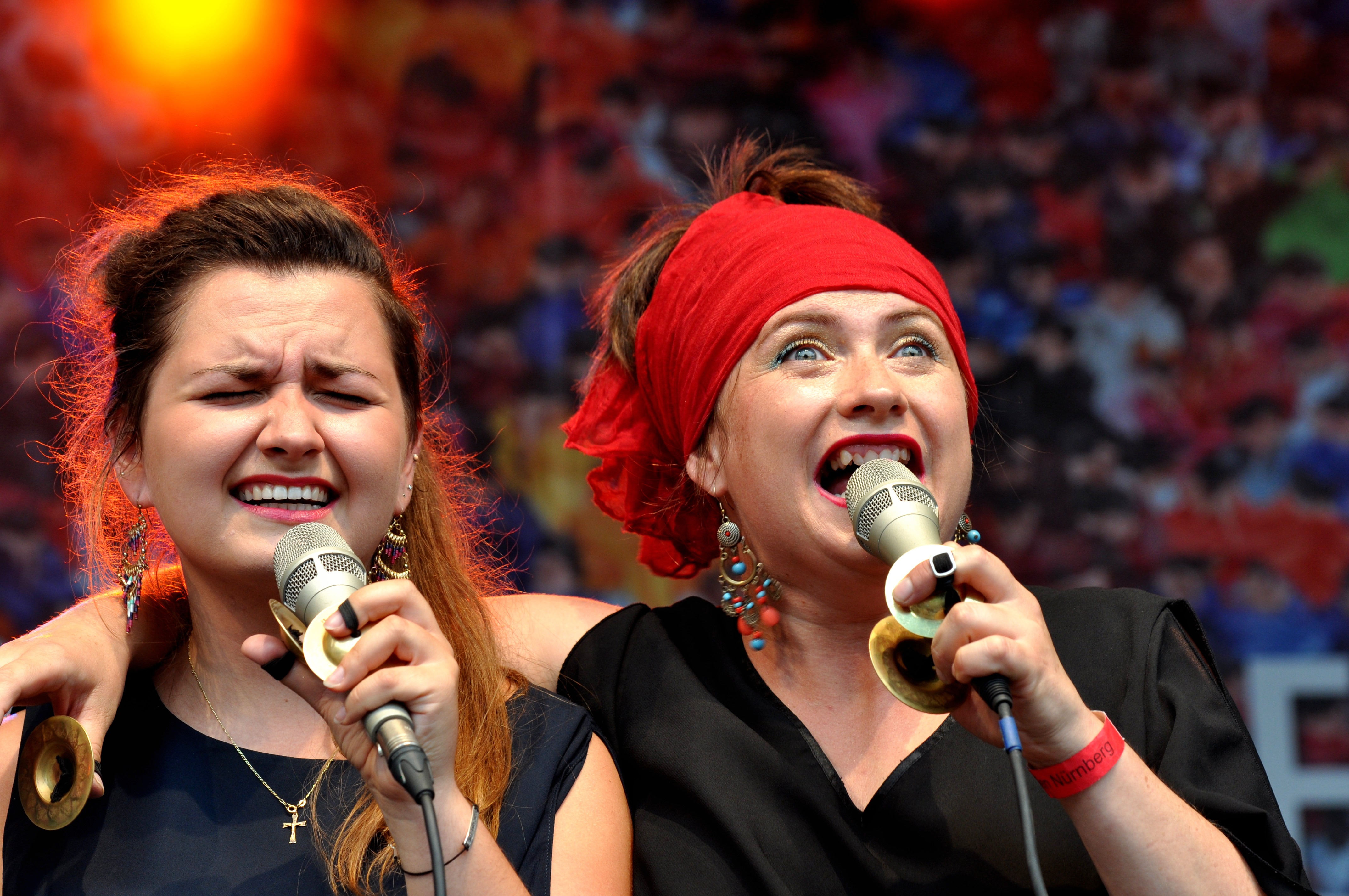 Dikanda (POL), Schuett island stage, 40th music festival 'Bardentreffen' 2015 at Nuremberg, Germany Festivalsommer This photo was created with the support of donations to Wikimedia Deutschland in the context of the CPB project "Festival Summer".